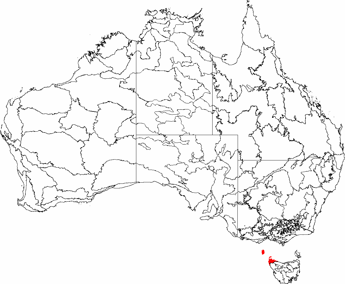 This is a map of the Interim Biogeographic Regionalisation of Australia (IBRA), with state boundaries overlaid. The King region is shown in red.